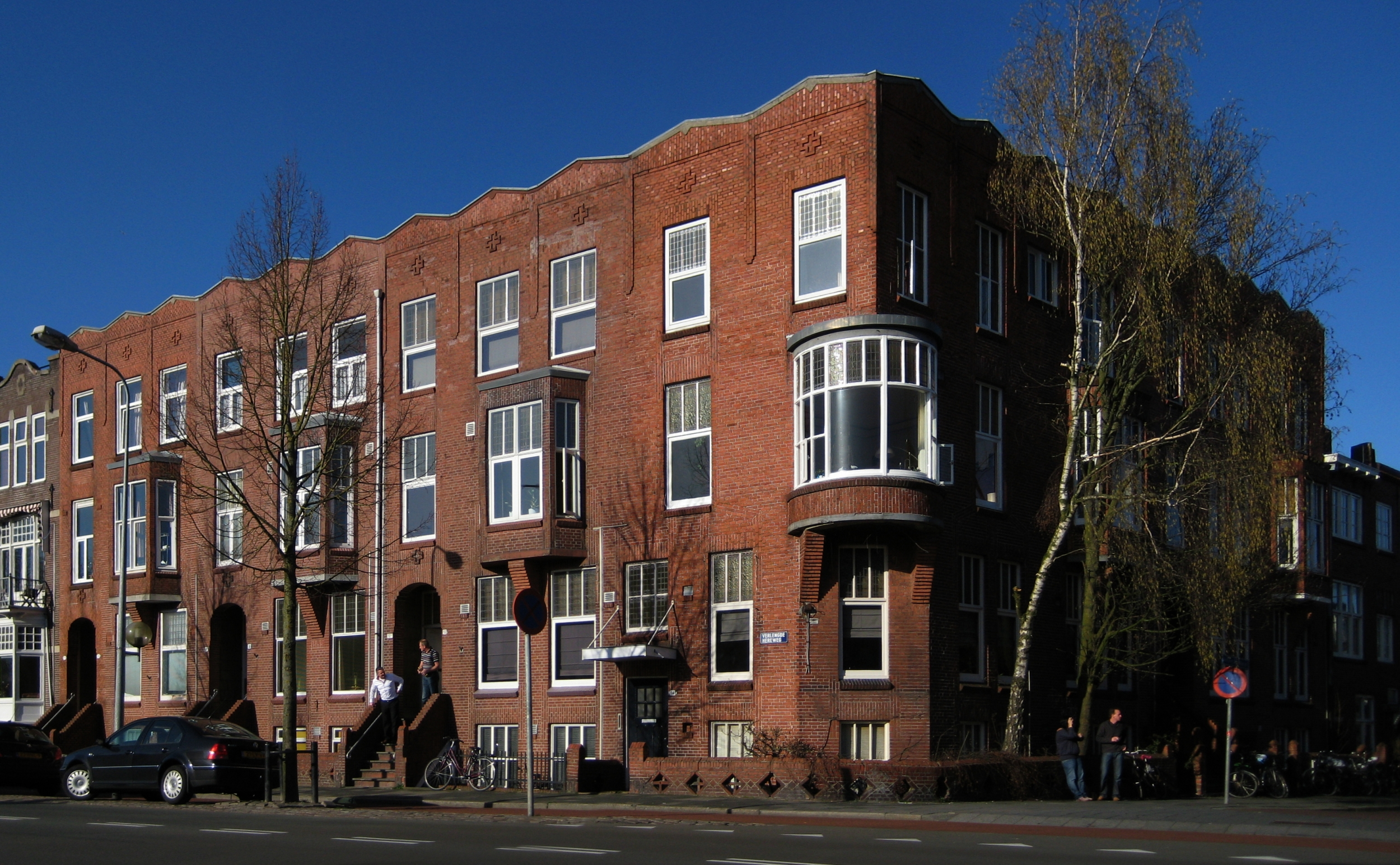 Housing complex (1916) in the Dutch city of Groningen.